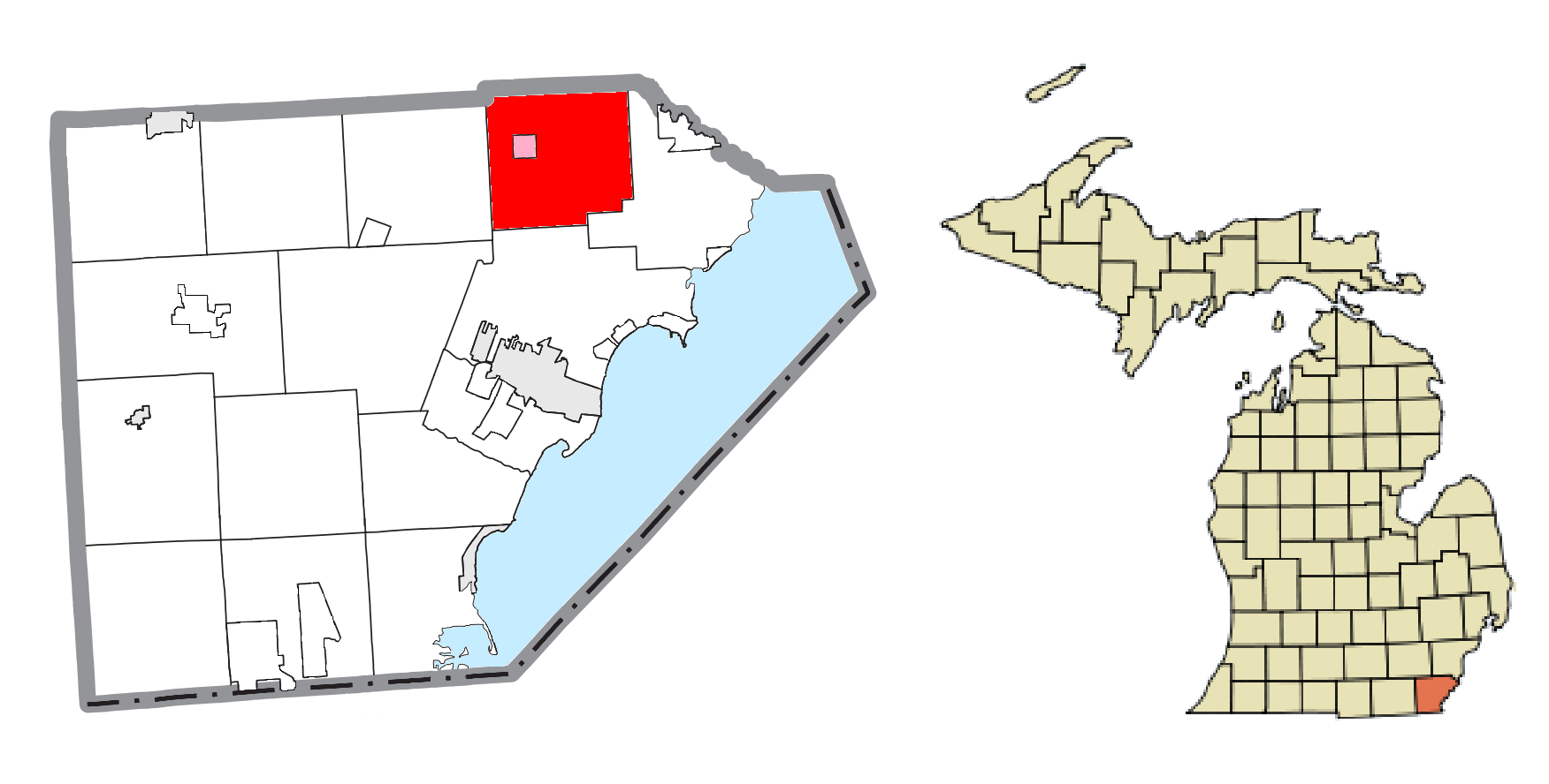 Ash Township, MI